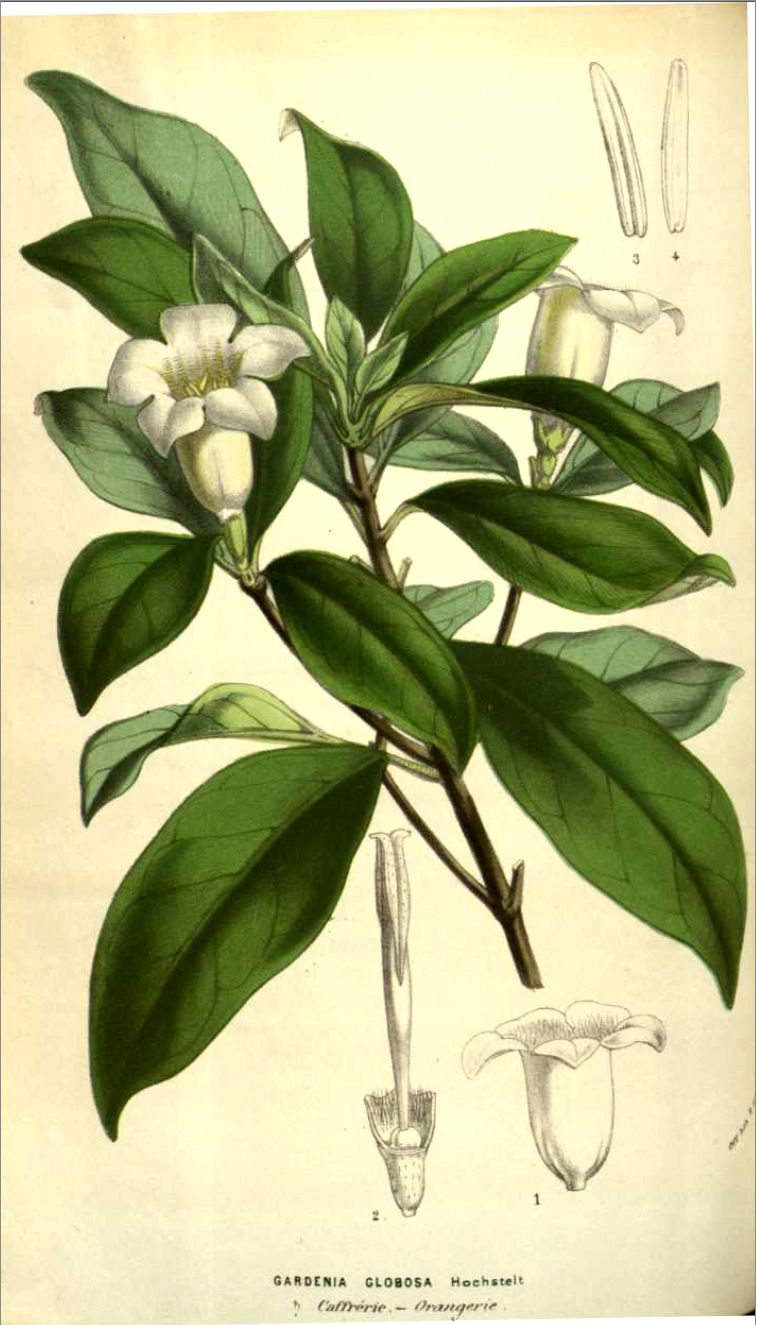 Rothmannia globosa (Hochst.) Keay